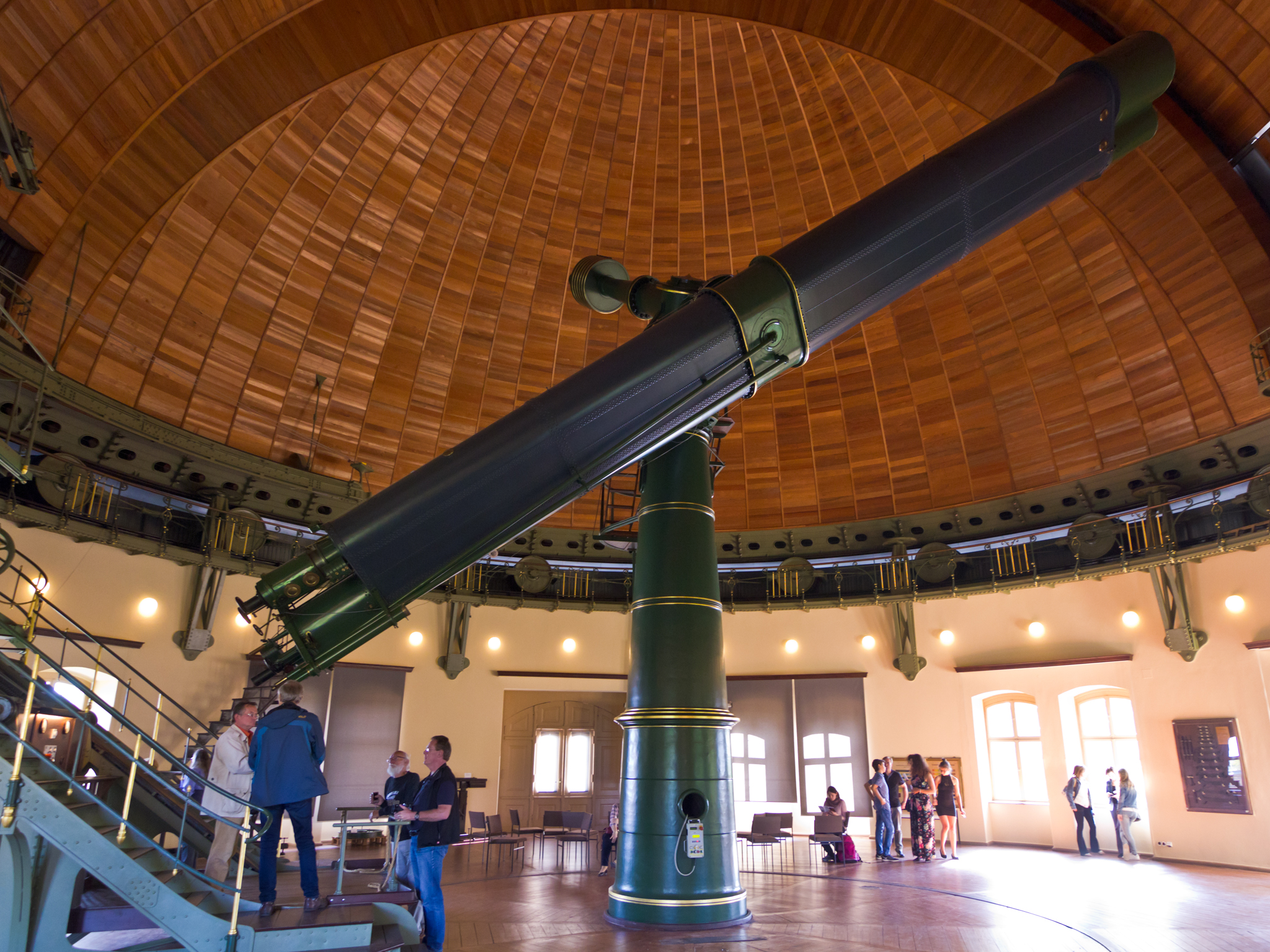 The Great Refractor of the Astrophysical Observatory Potsdam (AOP), Germany, was finished in 1899. It consists of two refracting telescopes in a common tube: a photographic instrument with an aperture of 80 cm and a focal length of 12.2 m, and a visual telescope with an aperture of 50 cm and focal length of 12.5 m. The Optics were made by Steinheil (Munich) the mechanics by Repsold (Hamburg). The telescope and it's dome were renovated in 1986-2005.